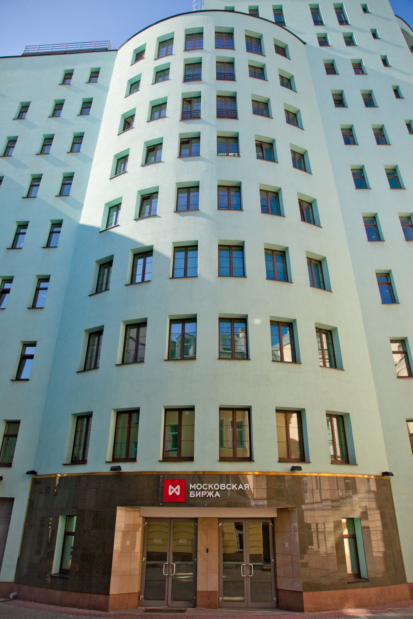 Moscow Exchange main central buildig.